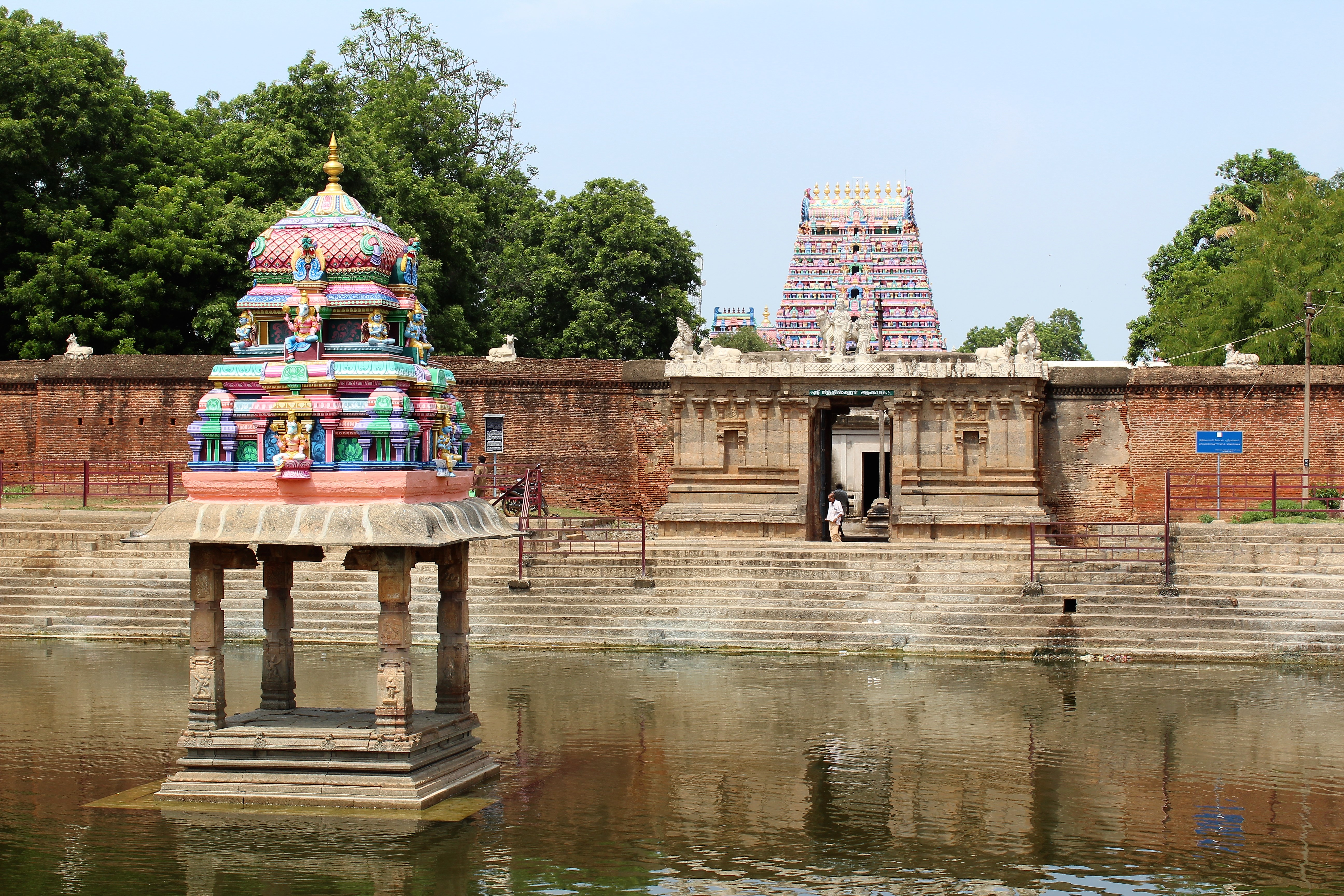 Srimushnam Bhuvarahaswamy temple